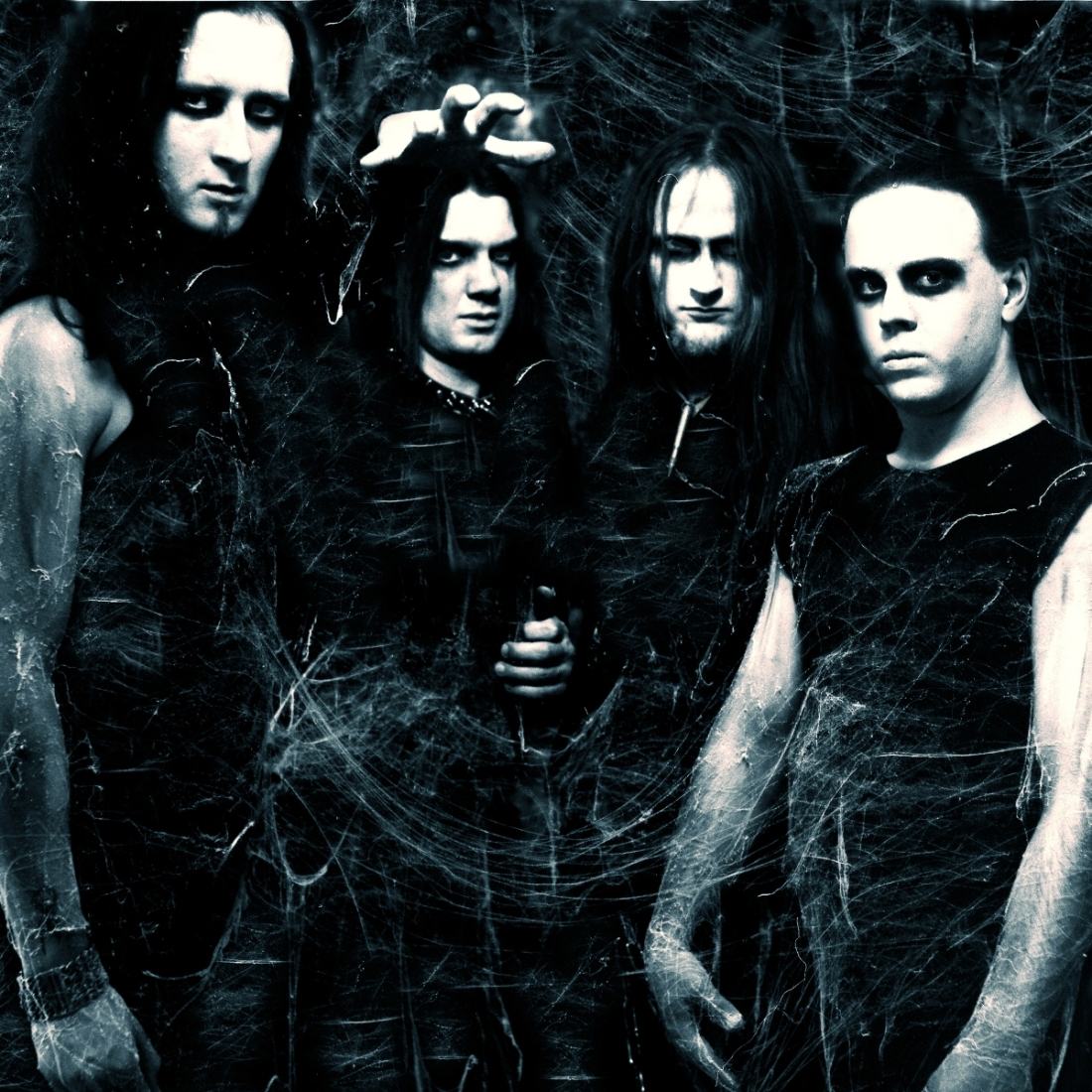 Polish death metal band Hate